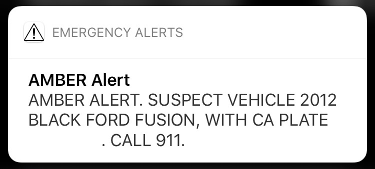 An AMBER alert on iOS, advising users to call 911 if they find a car with the description. License plate number has been removed. AMBER Alert